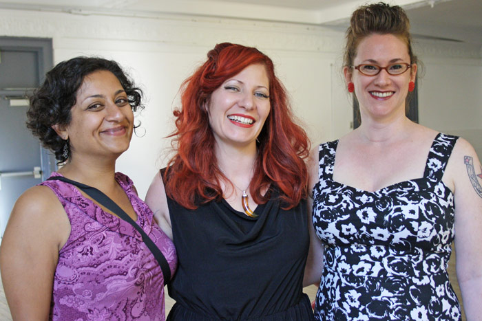 Past Dayne Ogilvie winners Farzana Doctor and Debra-Anderson with 2012 winner Amber Dawn (centre) Dayne_Ogilvie_Prize